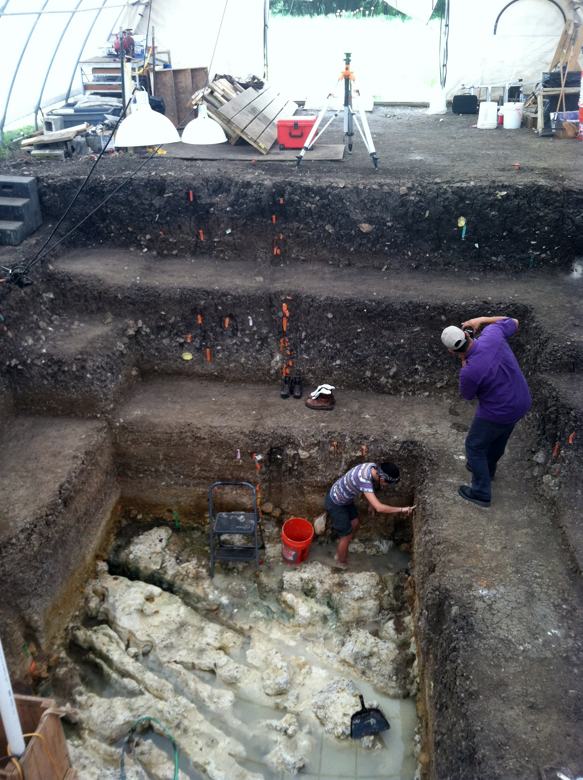 Shows the excavation of Gault Area 15 at bedrock